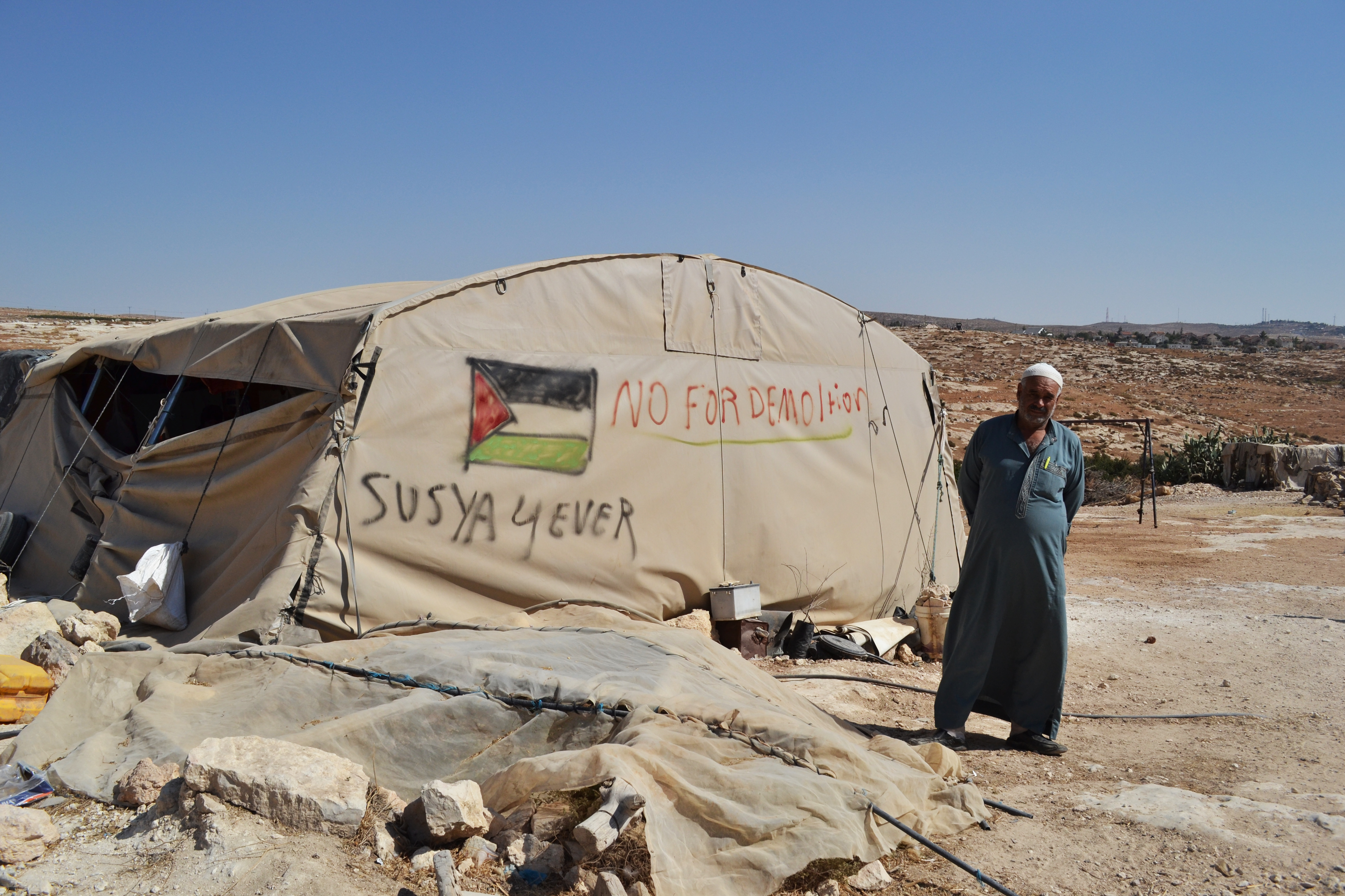 Mohammed Nawjaa of the Susiya community in the South Hebron Hills. This village is under threat of demolition. Photo: Eoghan Rice